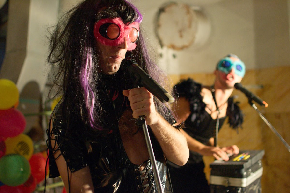 Концерт гурту "Рапани" на обувній фабриці Terra Futura X 2011